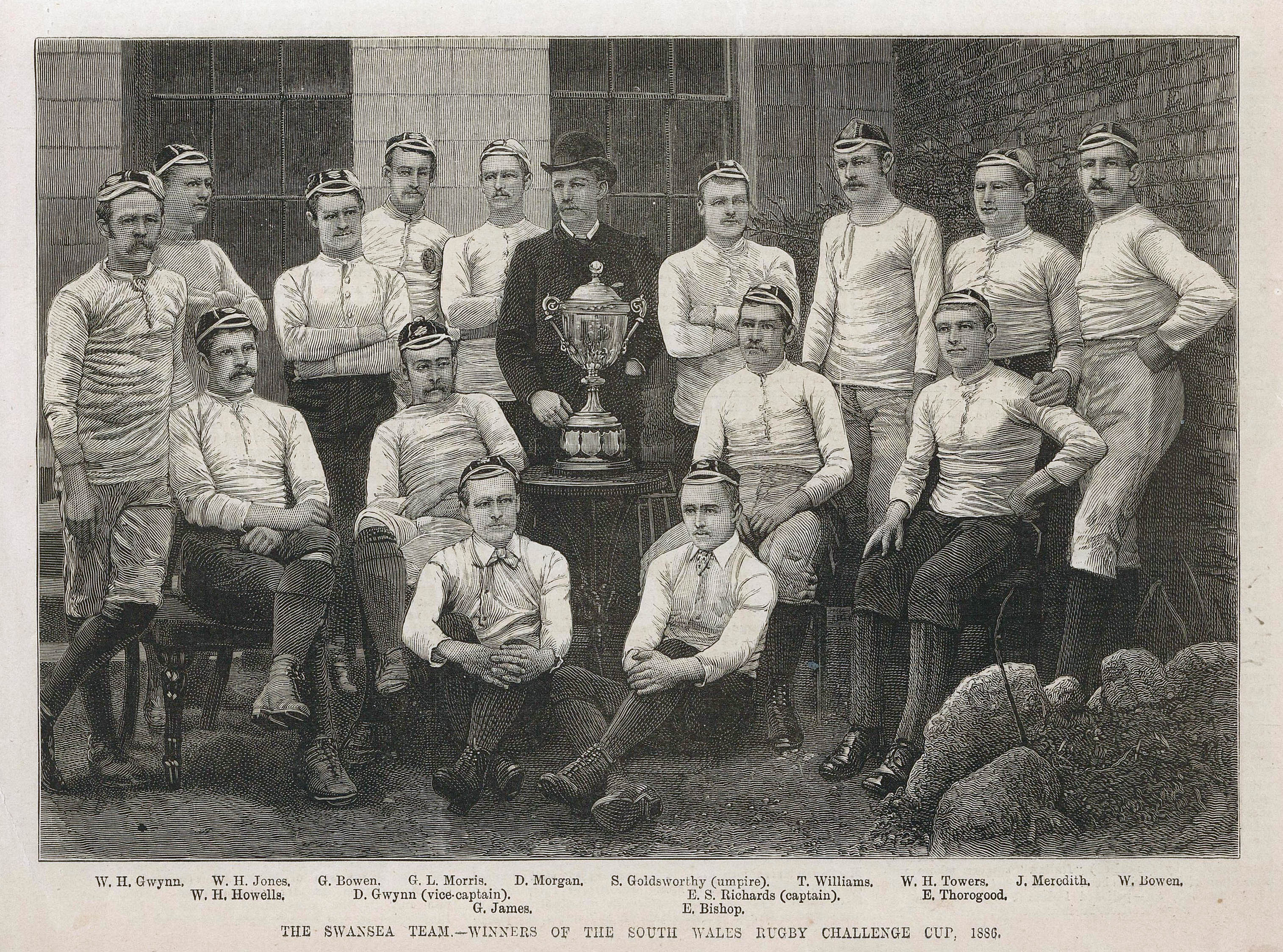 Team of Swansea R.C., winner of the South Wales Challenge Cup.